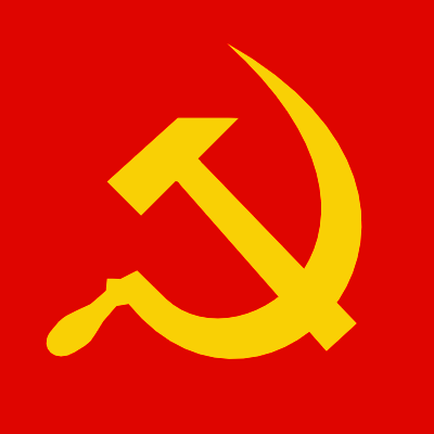 The hammer and sickle is a symbol of communism.